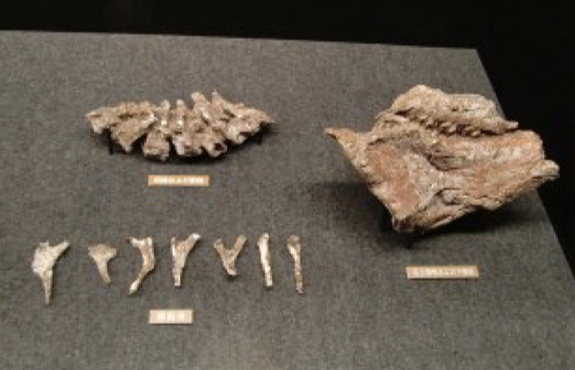 Zuchengceratops holotype.